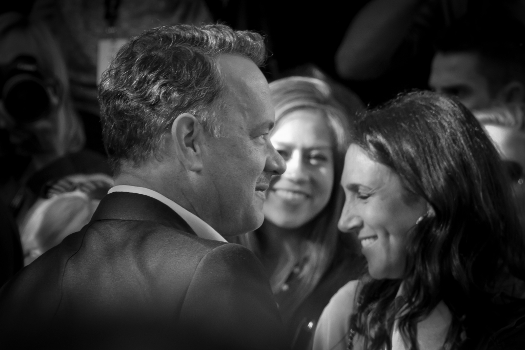 At the premiere of "Cloud Atlas", directed by Tom Tykwer and the Wachowskis, during the Toronto International Film Festival, 2012.